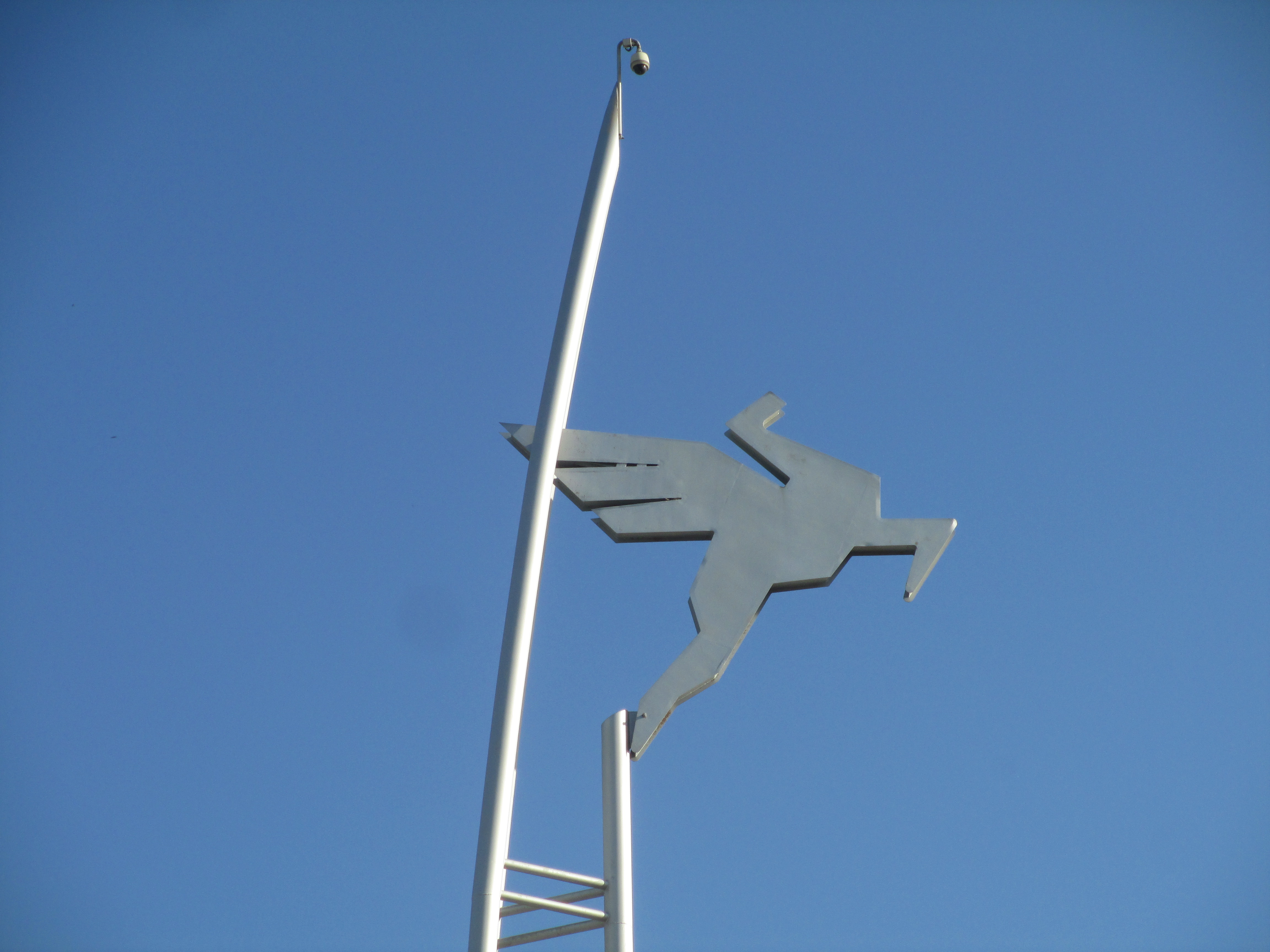 Israel Trade Fairs & Convention Center